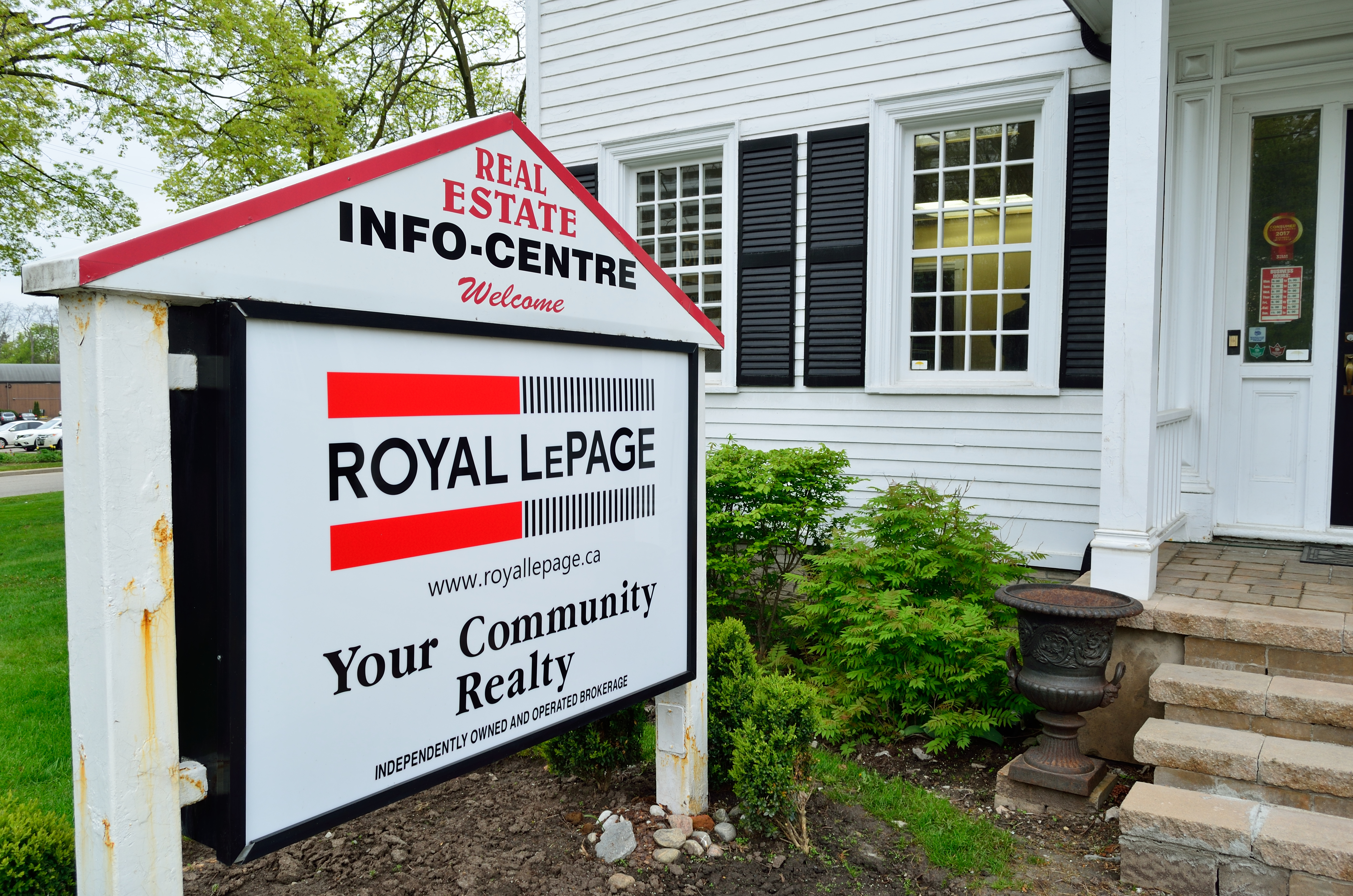 Royal LePage - 8000 Yonge St